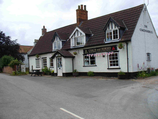 The Coach and Horses, Hemingby, Lincolnshire. The St George's flags are support for England in the World Cup 2006.